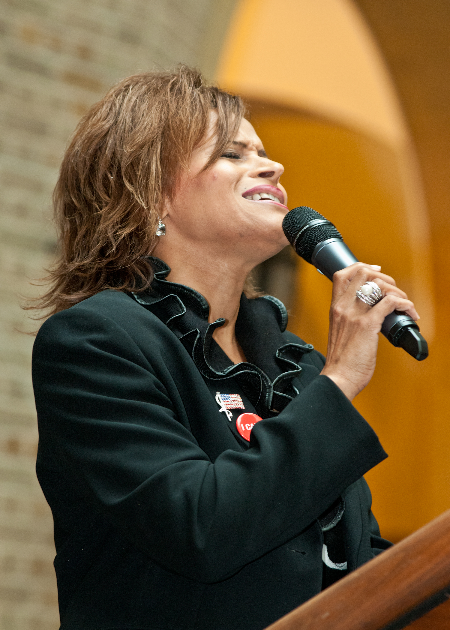 Renee Allen, Office of Executive Services sings the National Anthem at the kick-off of the U.S. Department of Agriculture 2011 Combined Federal Campaign “Compassion of Individuals, Power of Community” at USDA in Washington, DC, on Wednesday, September 21, 2011. The theme of the 2011 campaign is “Celebrating 50 Years of Caring, Serving and Giving.” USDA Photo by Bob Nichols.